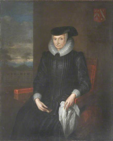 Dorothy Wadham (1534-1618), co-foundress with her deceased husband Nicholas Wadham (d.1608) of Wadham College, Oxford.